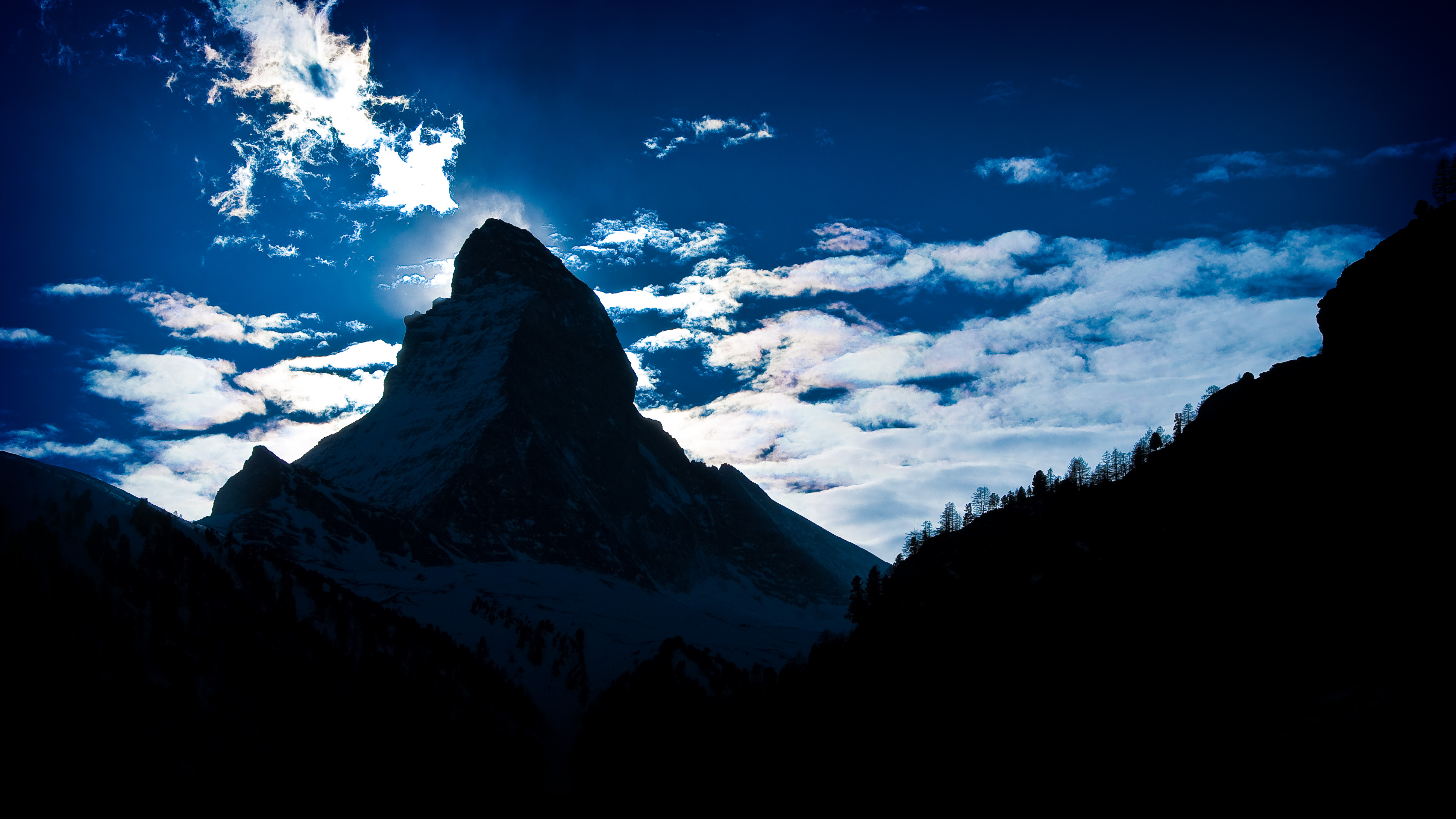 The Matterhorn from Zermatt